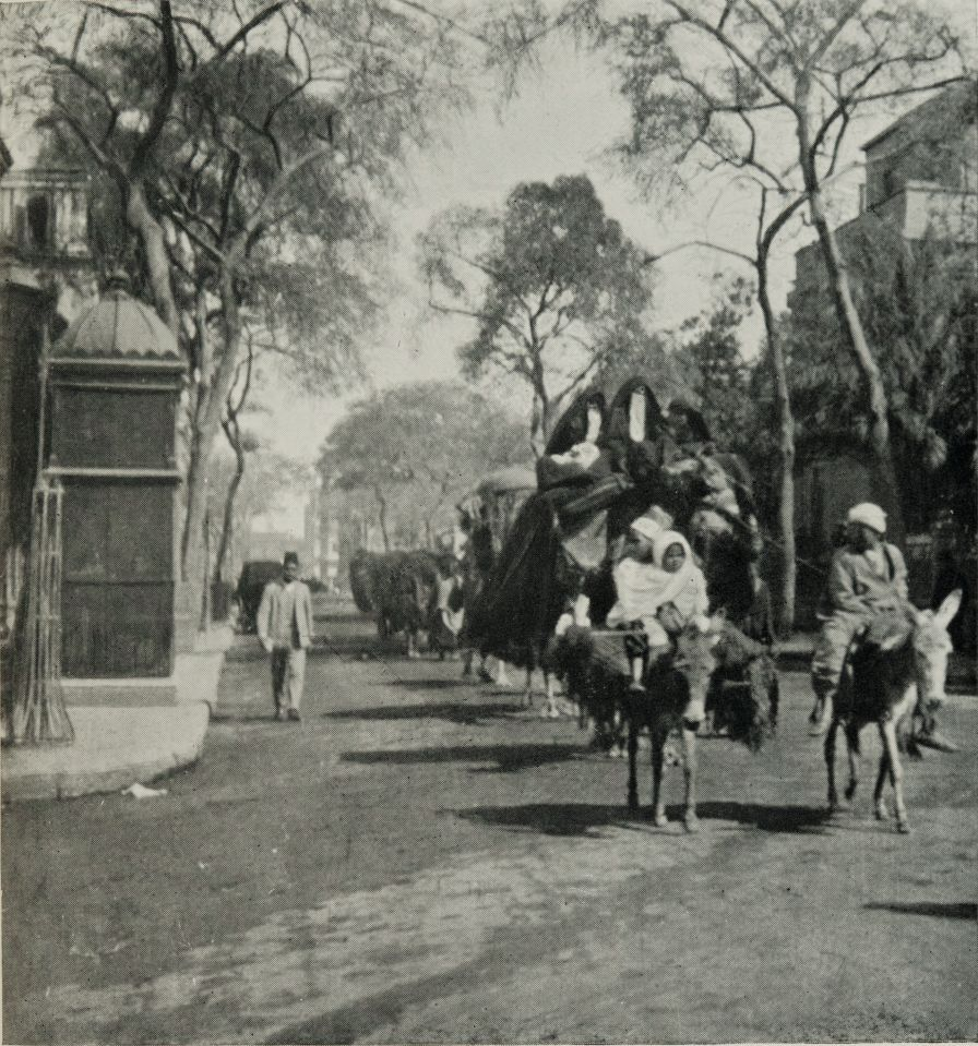 A bedawin tribe riding through the city. Black-and-white photograph.Caption: A BEDAWIN TRIBE ON THE MARCH THROUGH CAIRO.The entire community with all its goods and animals follows behind.